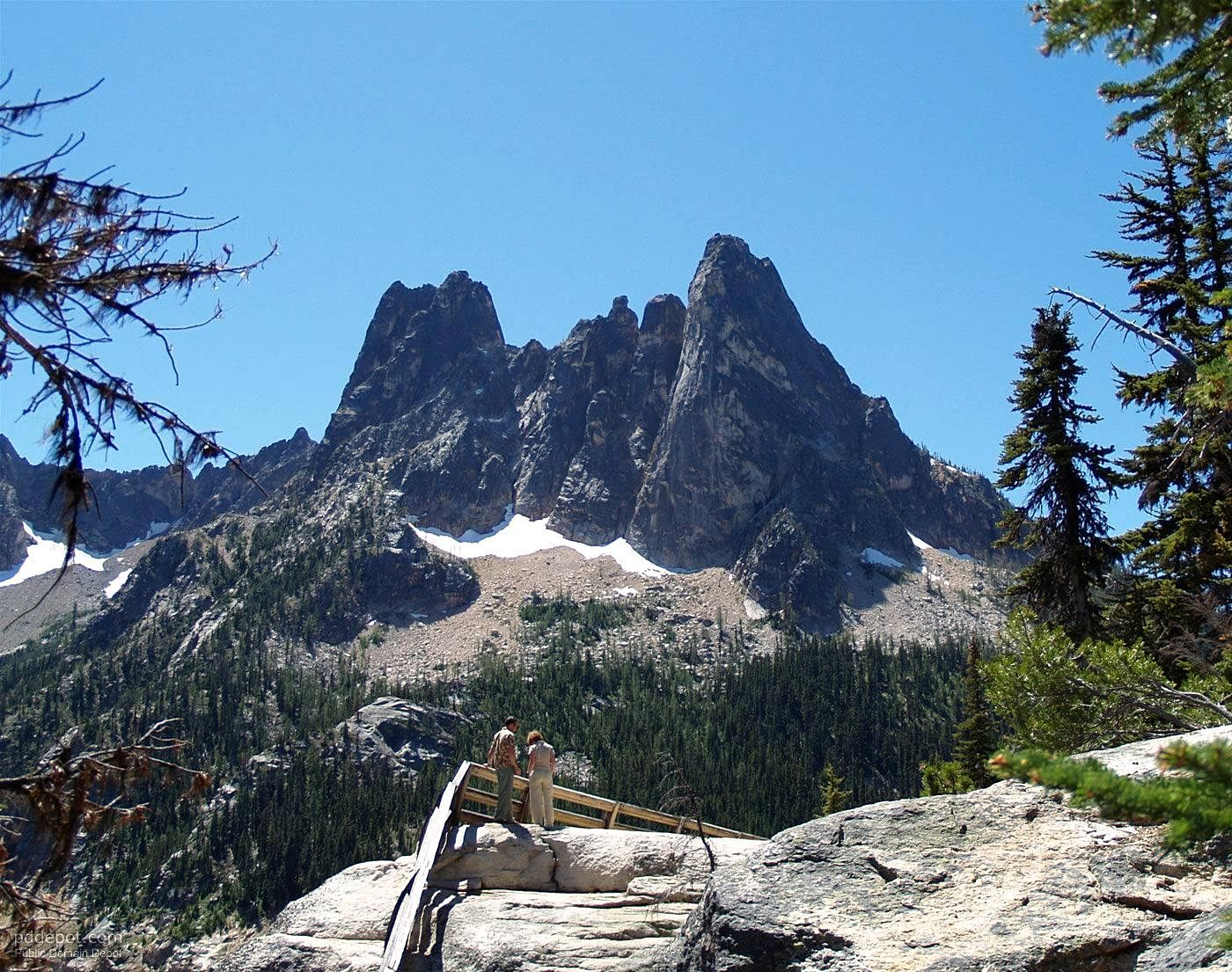 Image title: Washington pass overlook Image from Public domain images website